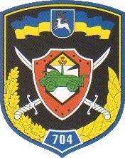 Sleeve patch for the 704th Chemical Corps regiment (Ukraine)